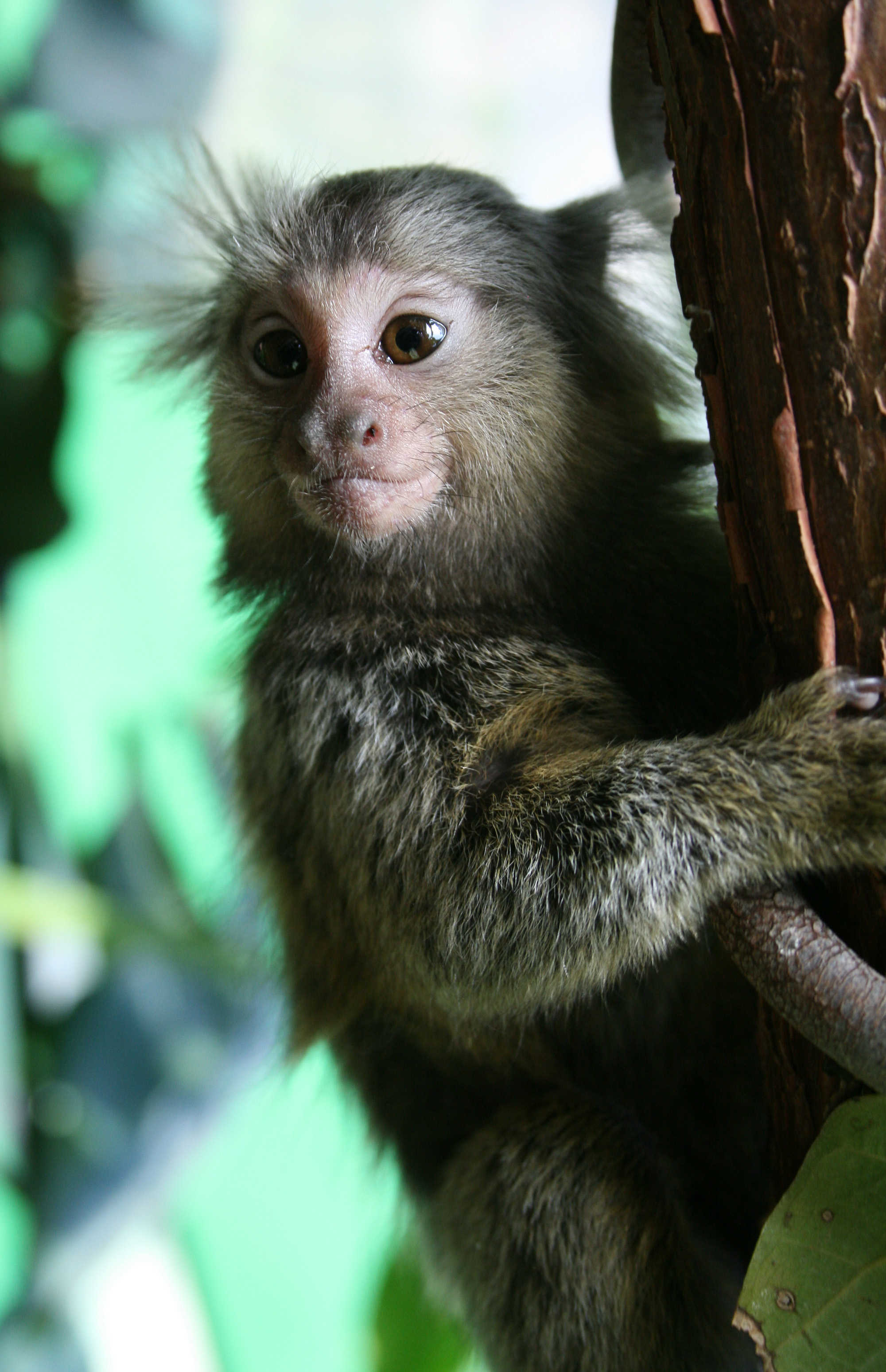 Young Common Marmoset at the 'Haus des Meeres' in Vienna